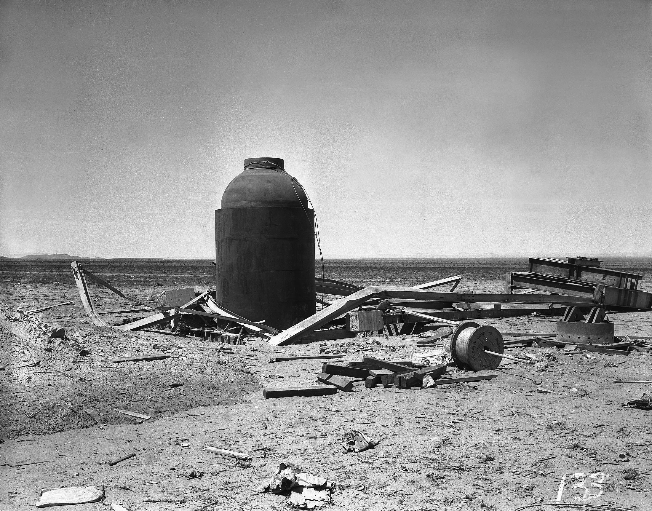 The "Jumbo" container after the Trinity test. (photo TR-133)